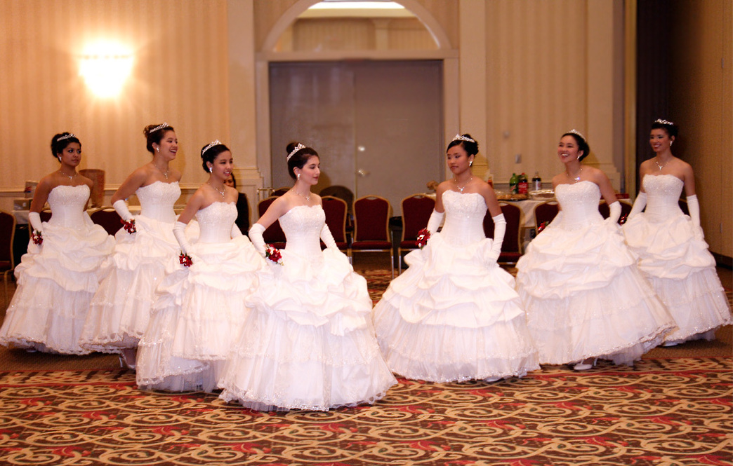 Seven young women wearing white debutante dresses and gloves at a dress rehearsal for their debutante ball.